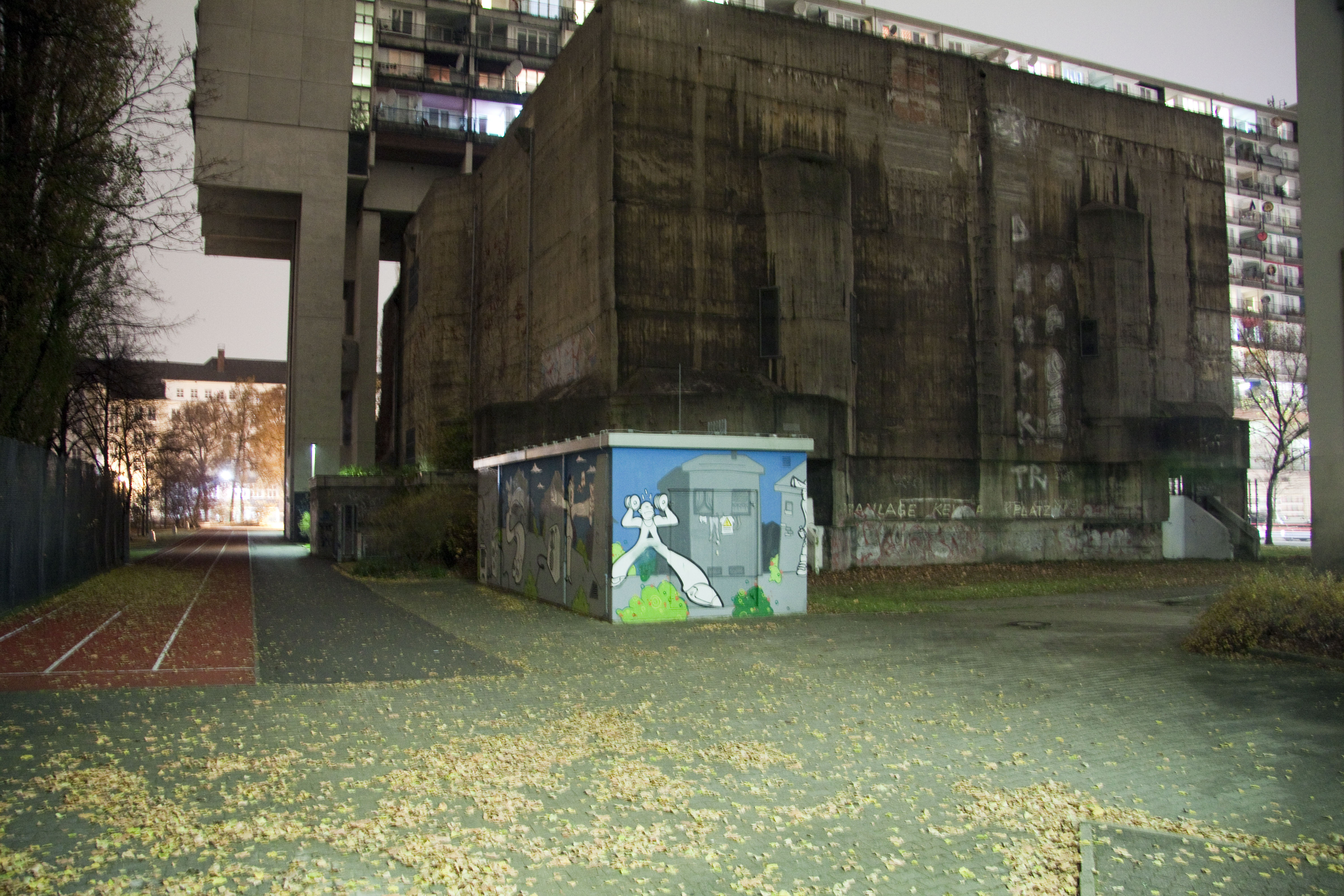 A picture of the Hochbunker, Pallas Straße, Berlin.